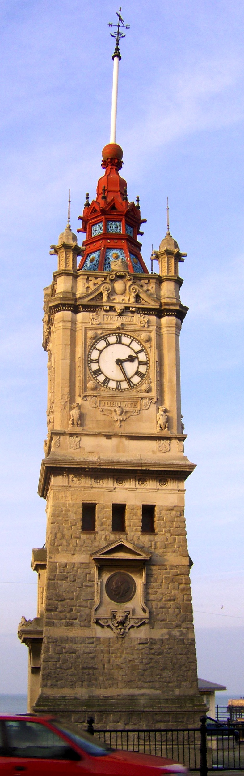 Margate Clock Tower. Taken by Rod Ward 28th Dec 2006